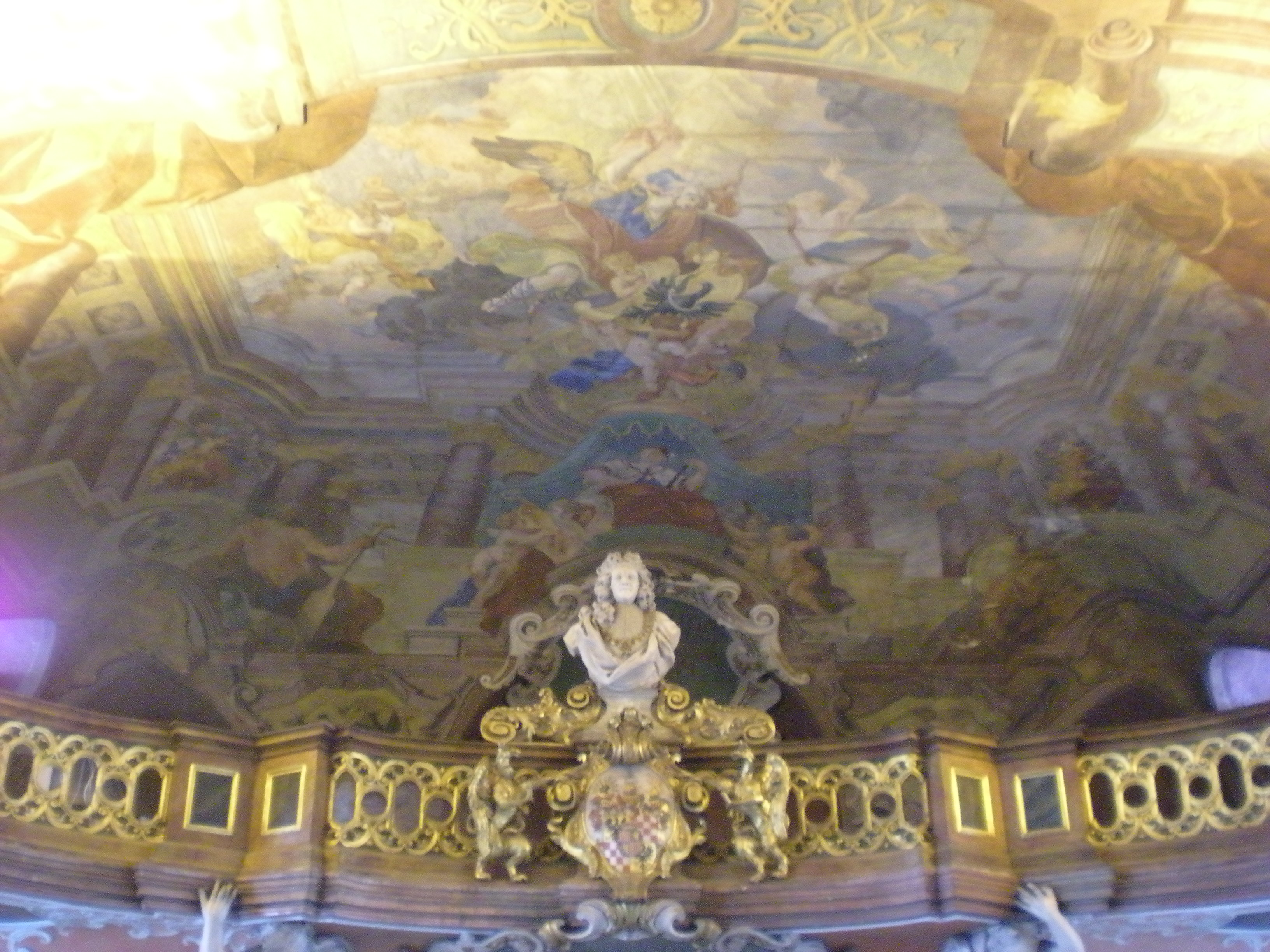 fresco in the choir loft of Aula Leopoldina in Wroclaw